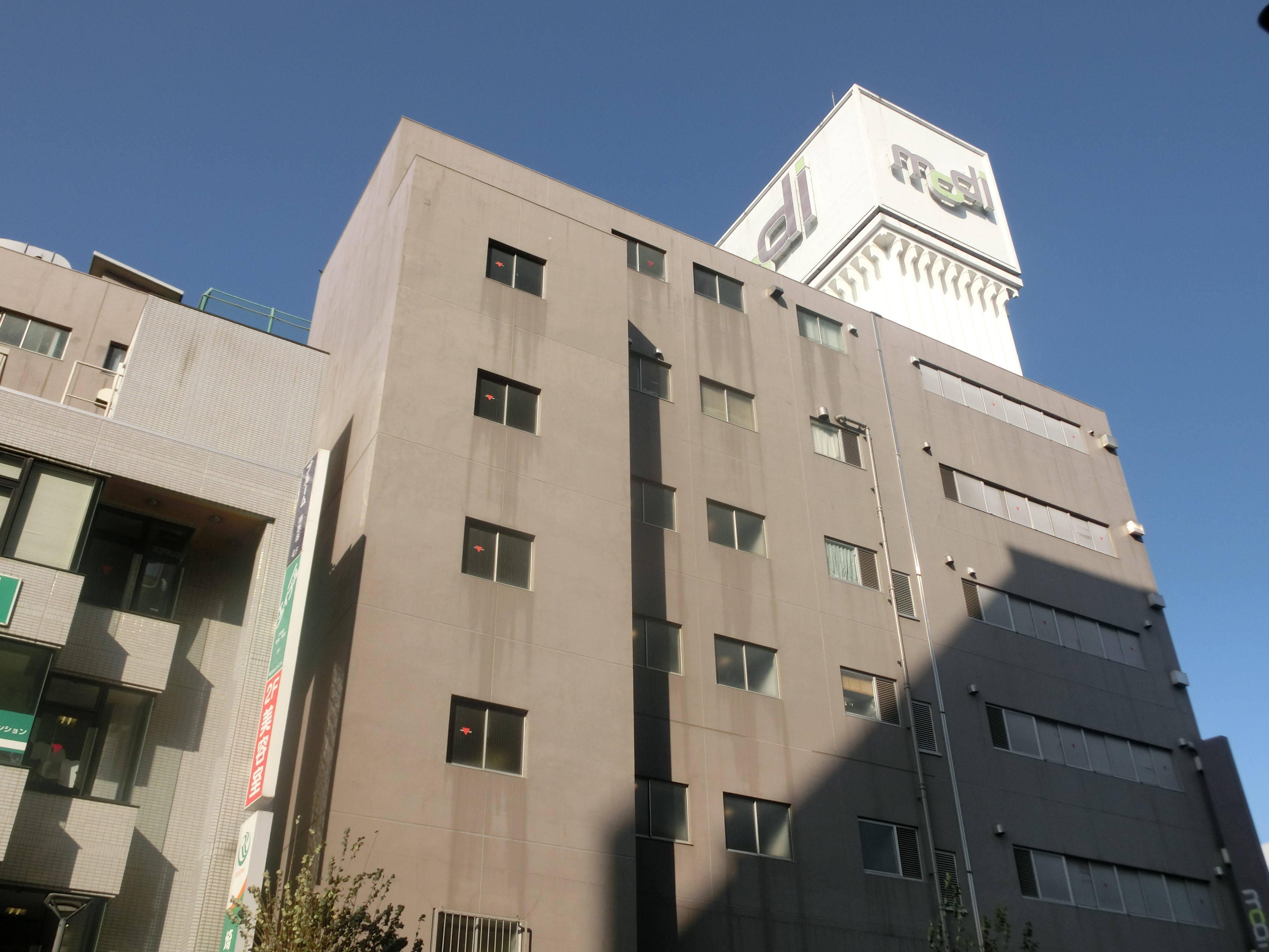 Kawagoe Modi